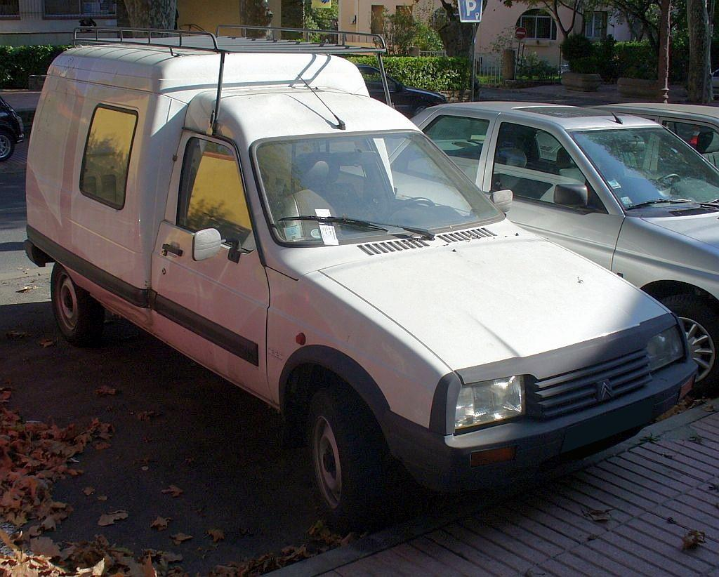 Citroën C15